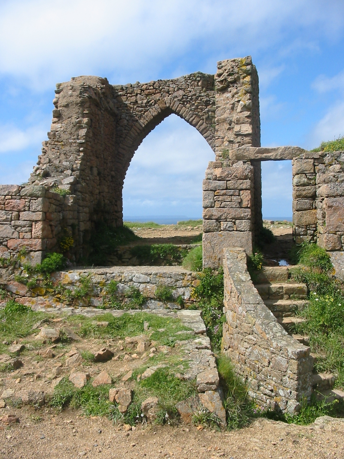 Ruined gatehouse of Grosnez Castle in Jersey. Sark can be seen on the horizon through the archway. Photo taken by Man vyi with Canon PowerShot A40 on 22/5/2005